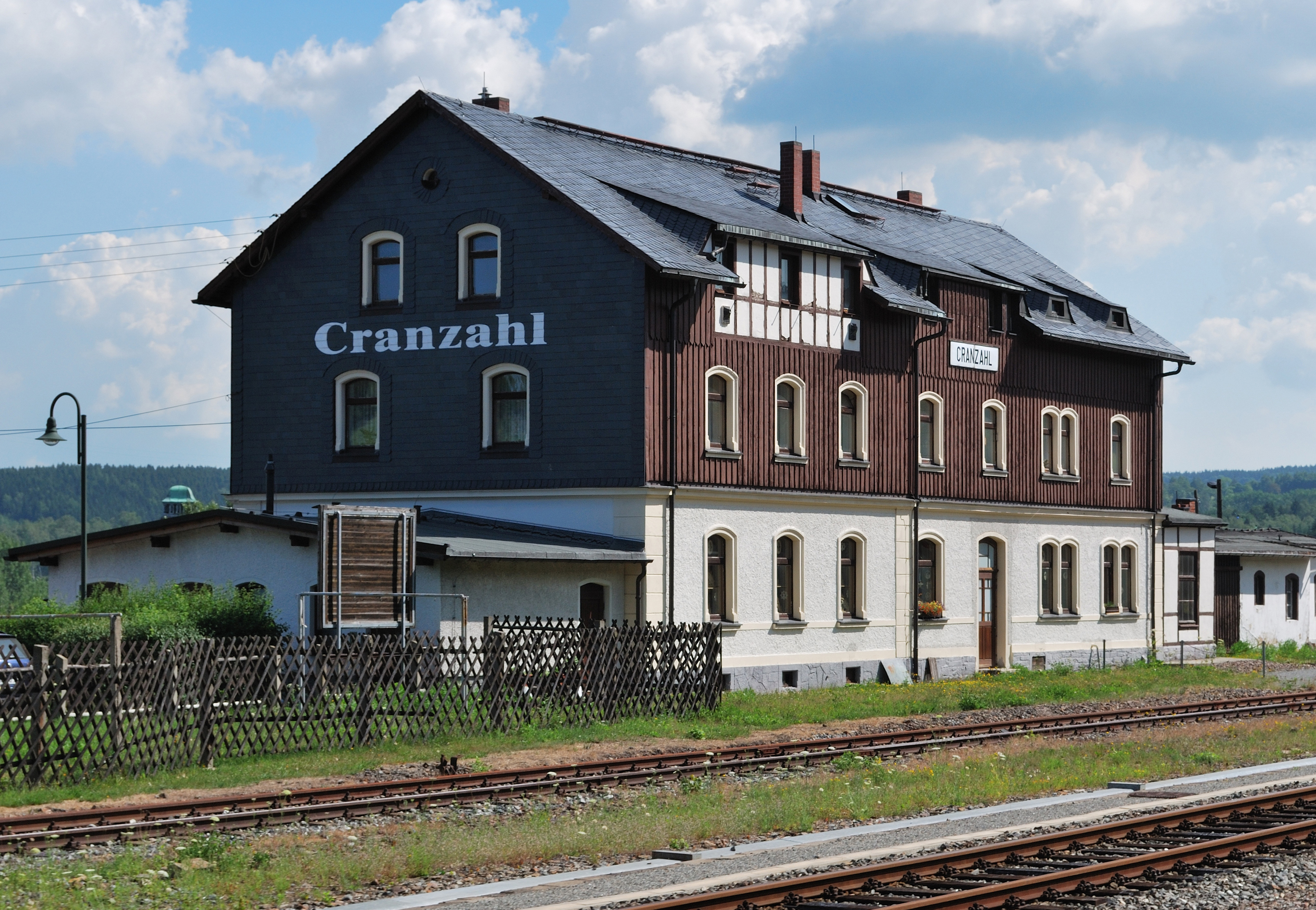 The station of the Fichtelberg Railway in Cranzahl, Saxony in Germany.